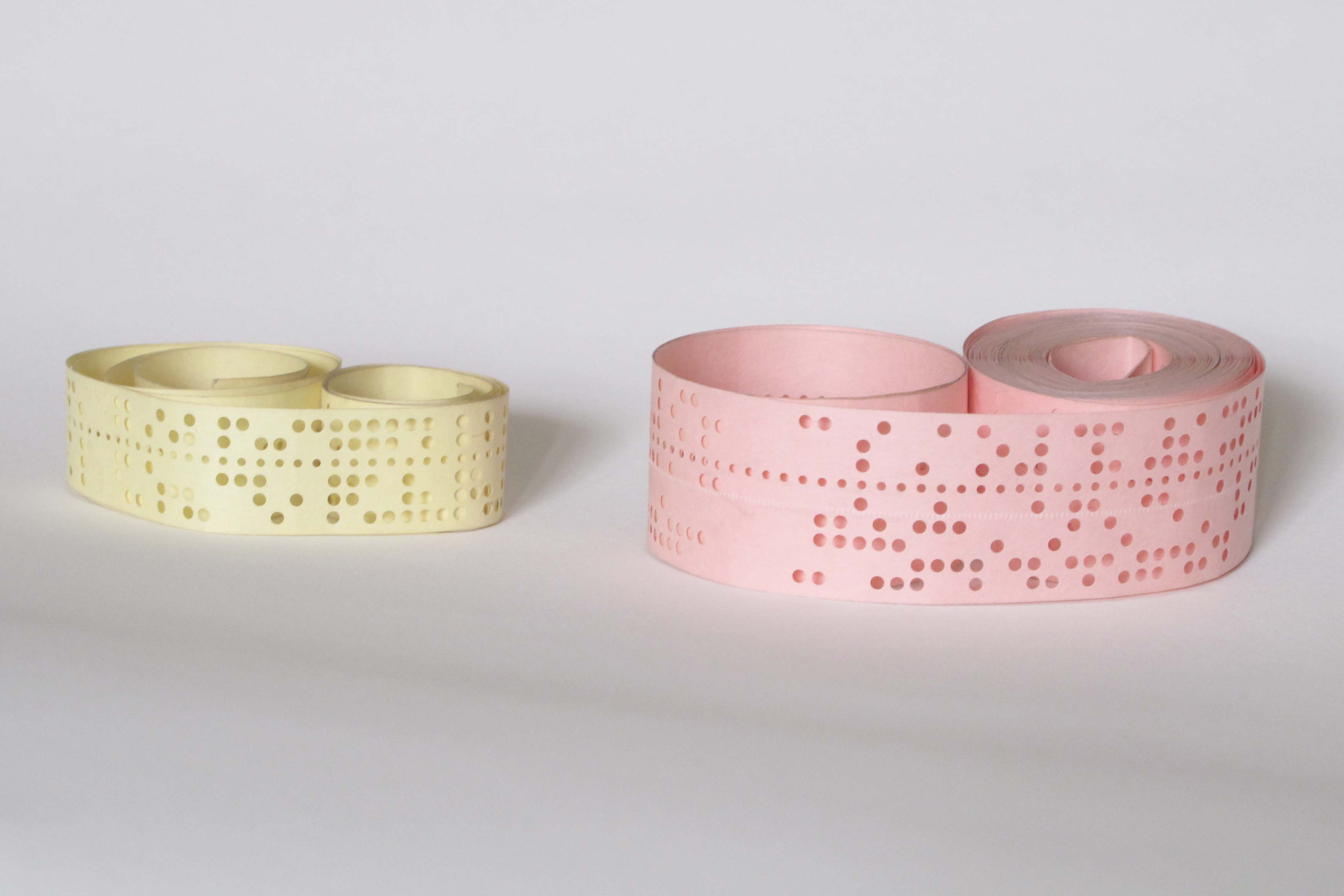 Five hole and eight hole perforated paper tape as used in telegraph and computer applications